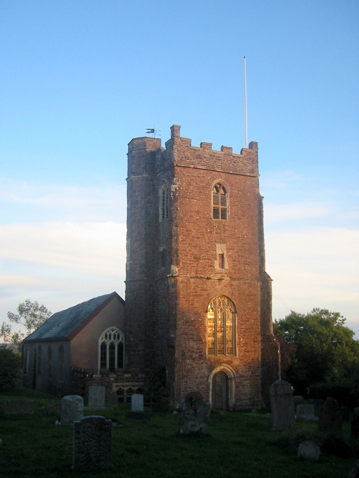 Photograph of St Bartholomew's church in the village of Cadeleigh in Devon, UK